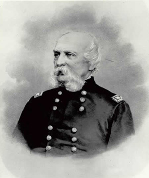 This is an official Army image and can be used in the public domain.